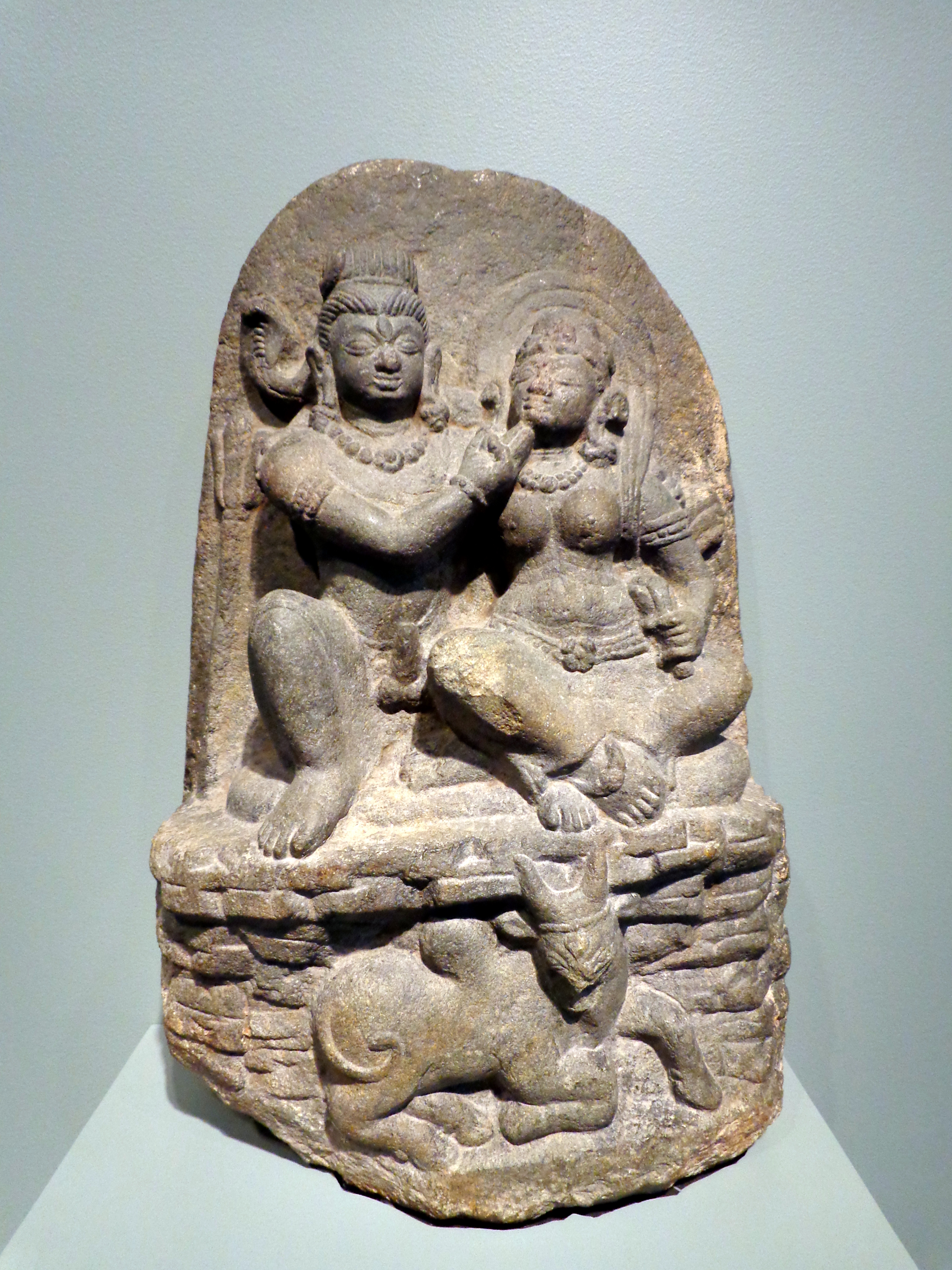 Shiva and Parvati and, at their feet, bull Nandi. The sculpture dates from around 600 - 700 CE, is made of chlorite and comes from Bihar state (India). It is now in the Asian Art Museum of San Francisco, California.